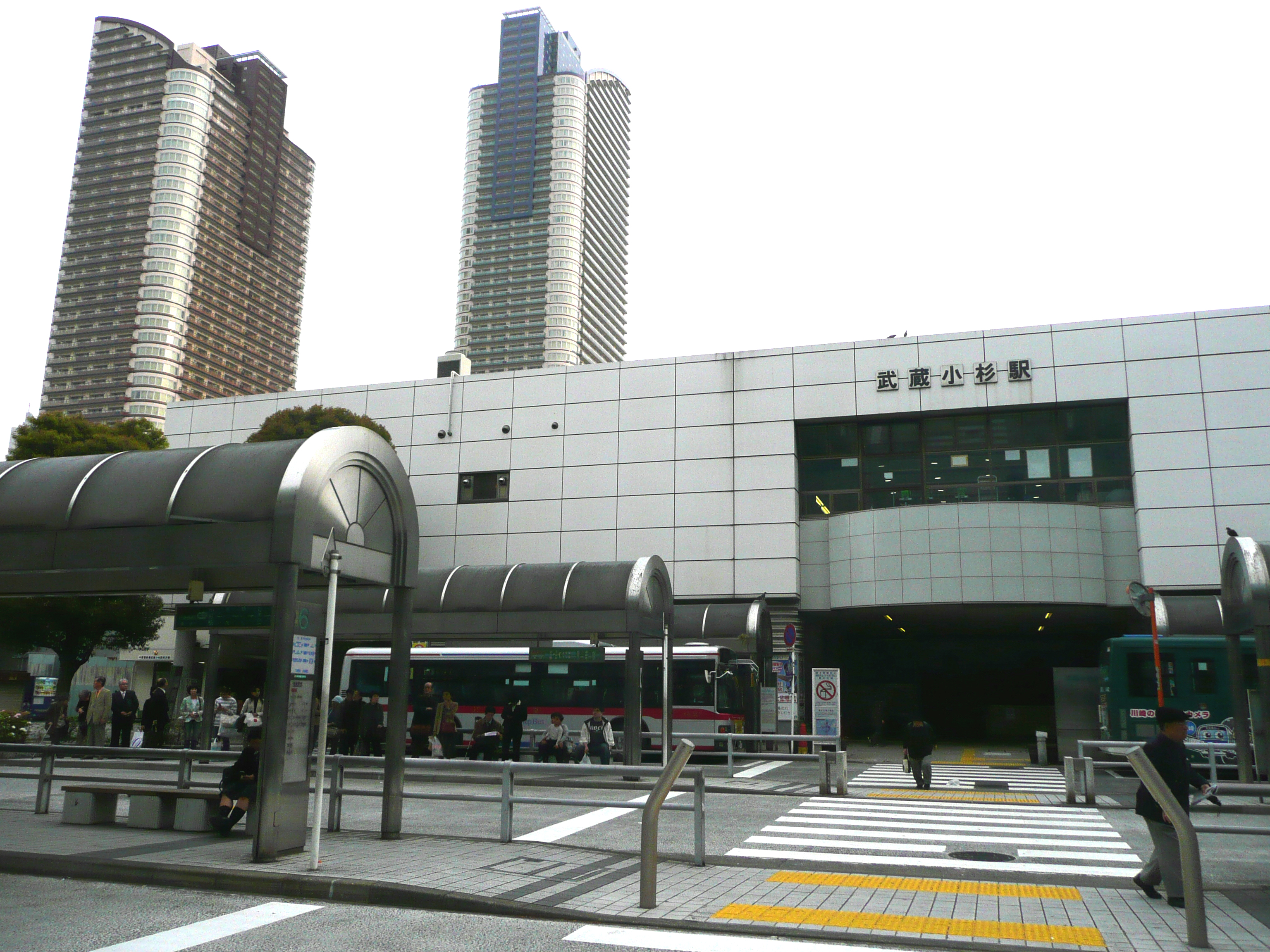 North Exit of Musashi-Kosugi Station